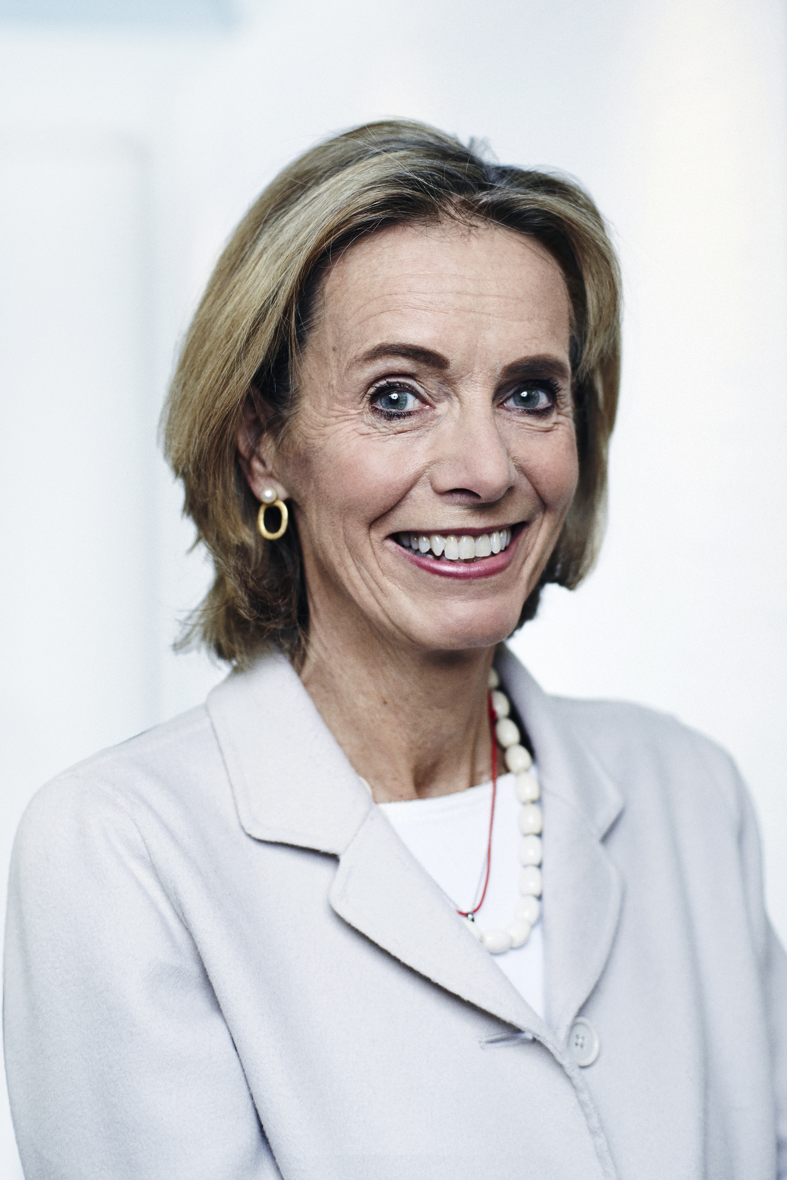 Deputy Chair of the Board of Directors of Orkla ASA Photo: Ole Walter Jacobsen